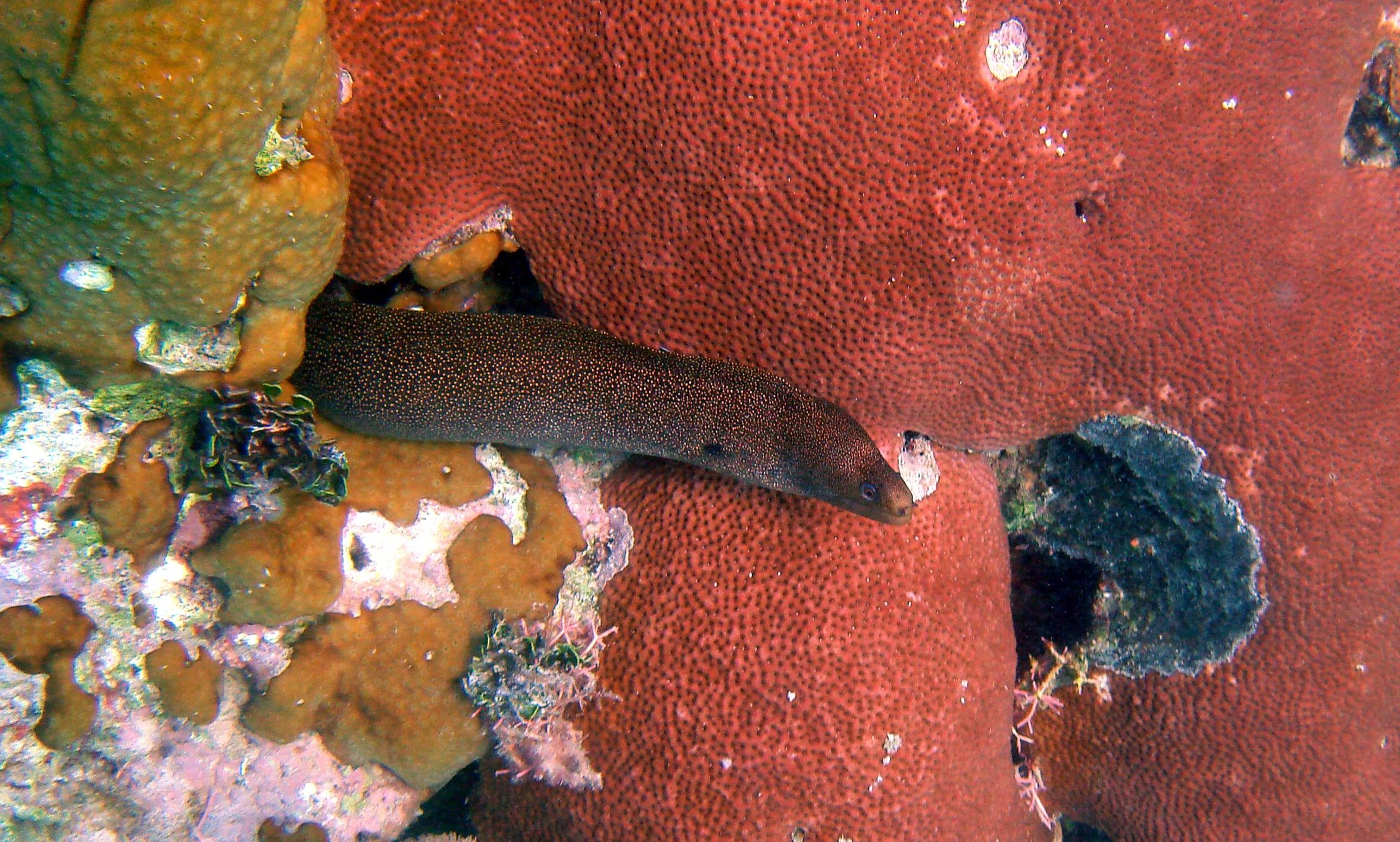 Goldentail Moray, photographed near Holguin, Cuba